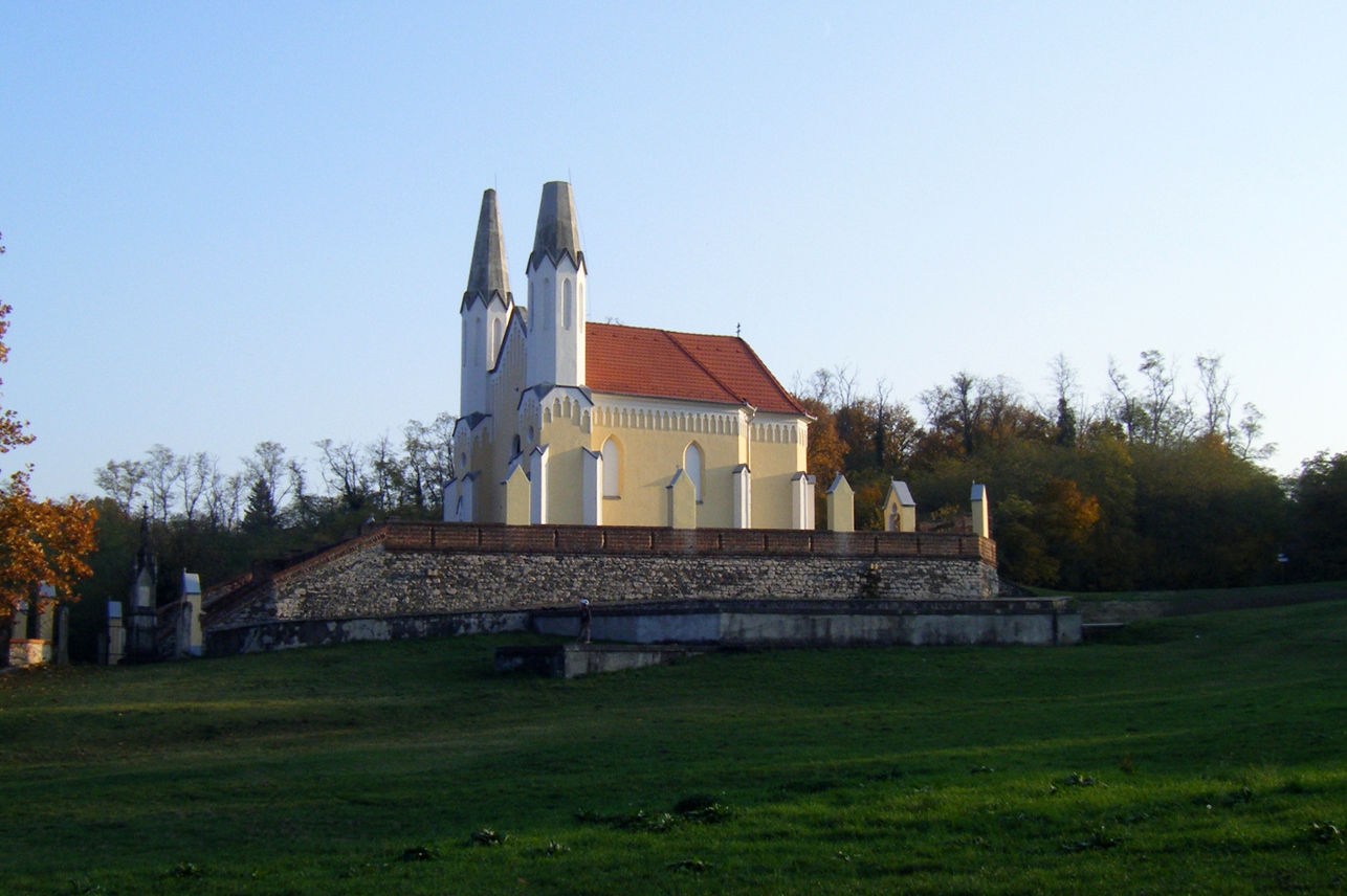 Sitke Kálvária-kápolna